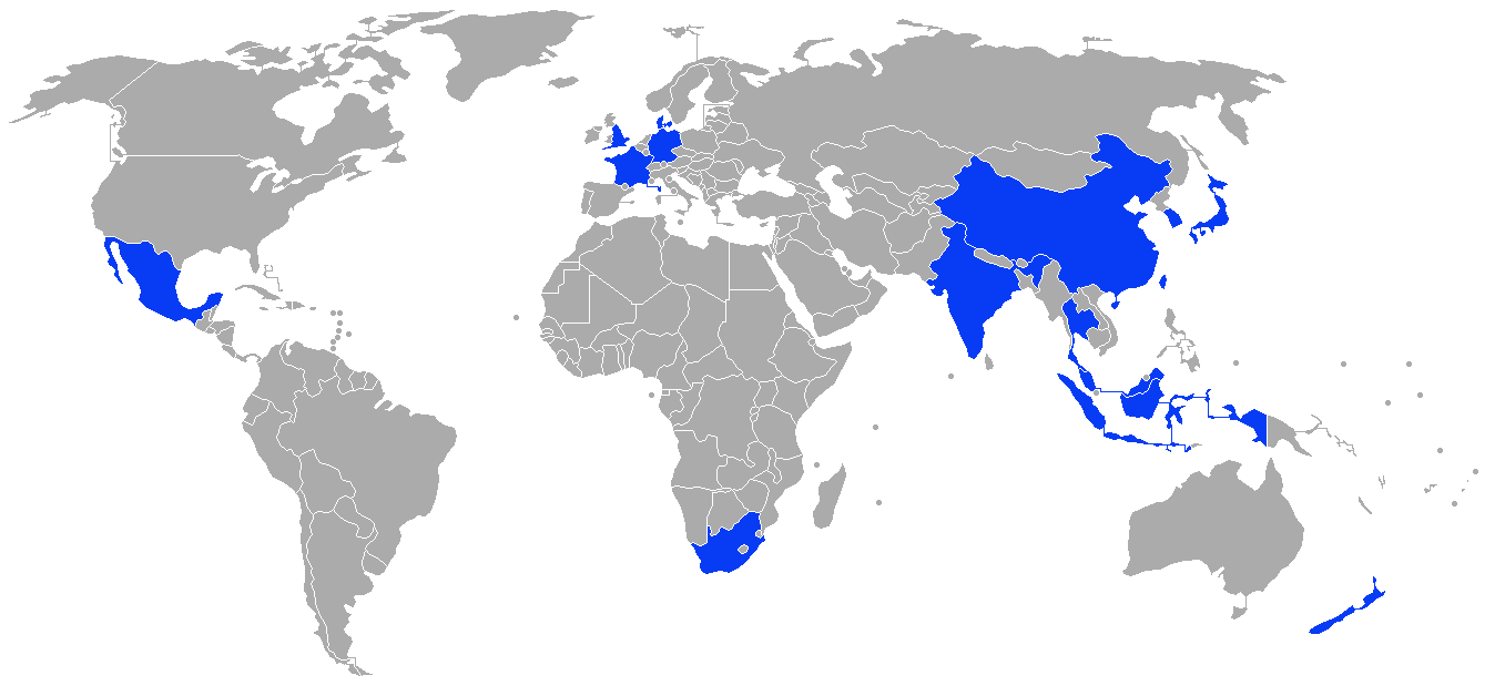 Participating nations in Thomas Cup 2016.